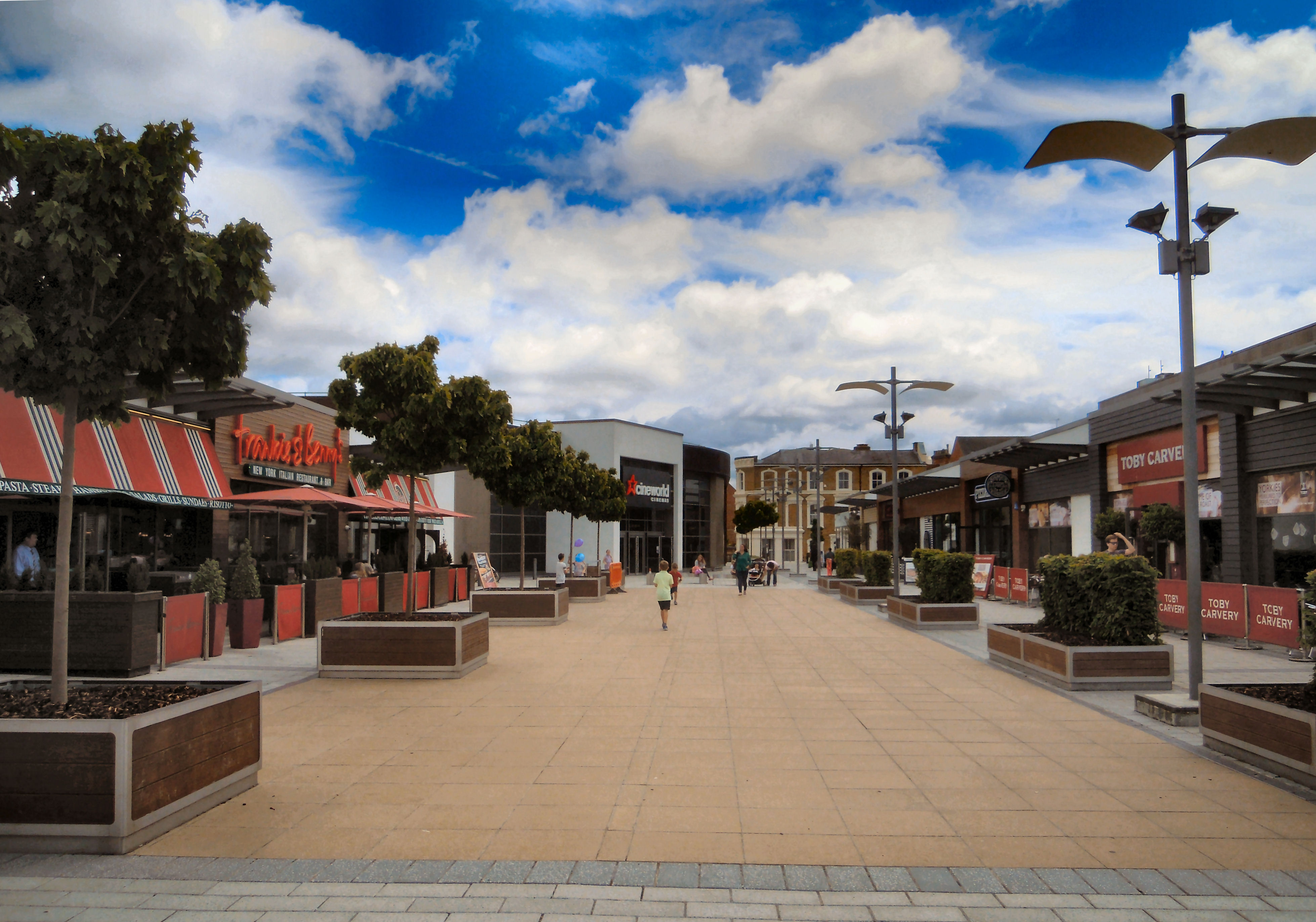 The West Gate Leisure Park at Aldershot in Hampshire